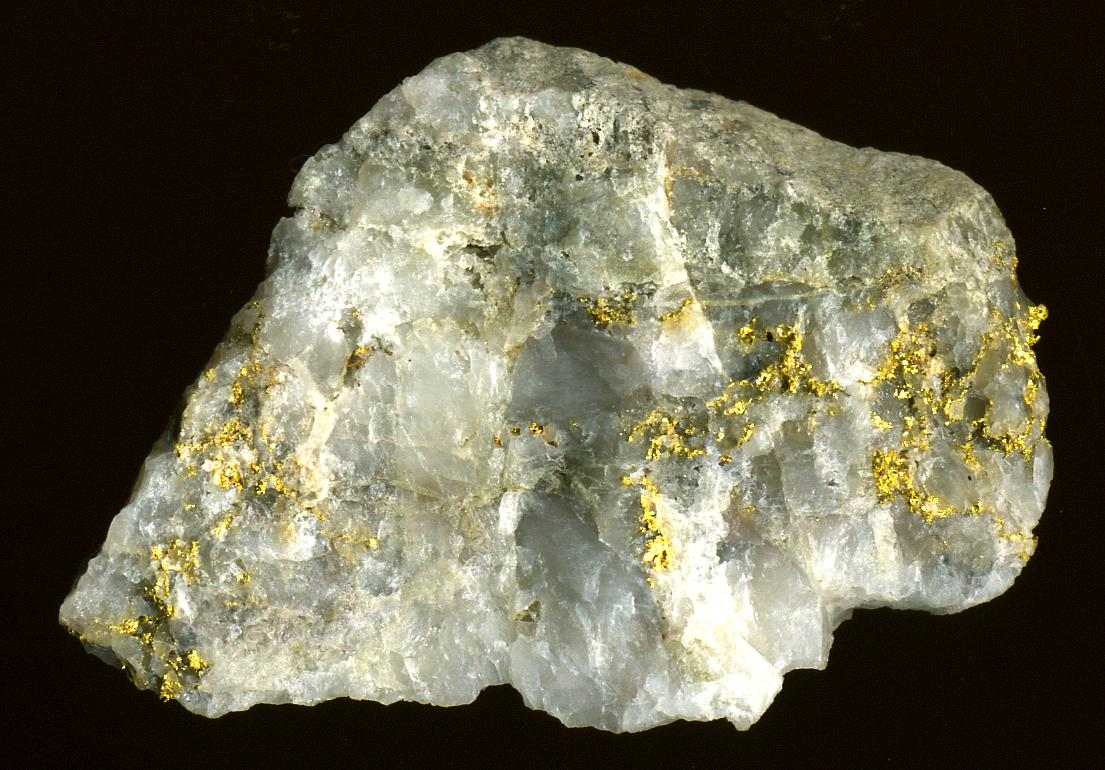 Hydrothermal quartz-gold vein sample (3.2 cm across) from the Harvard Open Pit Mine, northwestern side of Rt. 49/Rt. 108, western side of Woods Creek, just west of Jamestown, western Tuolumne County, Sierra Nevada foothills, central California, USA (37° 56’ 50” North , 120° 36’ 20” West). Geology - hydrothermal quartz-gold veins of the Mother Lode Gold Belt occur in the Melones Fault Zone (= boundary between the Foothills Terrane and the Don Pedro Terrane). To the east of the fault zone is Jurassic slates. To the west of the fault zone is serpentinite melange. Age - The Melones Fault Zone was active principally in the Late Jurassic and Early Cretaceous. Gold-quartz mineralization occurred during the late Early Cretaceous, at about 108 to 127 Ma.